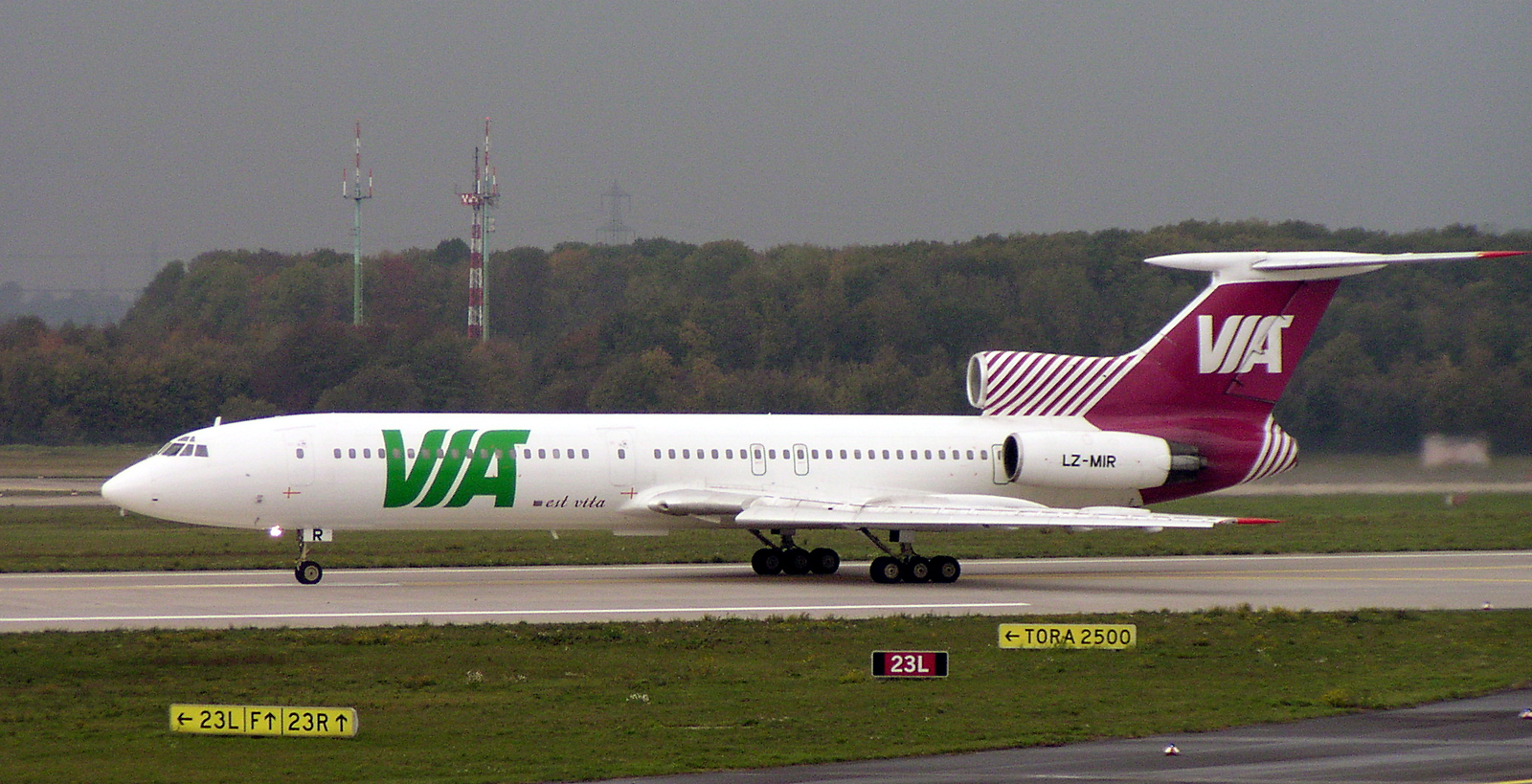 Description: A bulgarian VIA Tupolev Tu-154M at Düsseldorf Airport, 26. October 2003. Source: selbst fotografiert Photographer: Arcturus Licence: GFDL-self + cc-by-sa-2.0-de